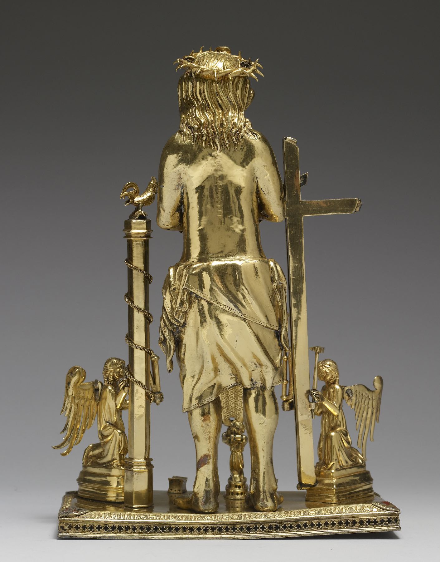 The image of the Man of Sorrows is a distillation of the events of Christ's Passion. Christ contemplates with sorrow the instruments of his suffering: the cross and hammer, whips, nails, column of the Flagellation, and the dice thrown by the soldiers for his garments. The gabled container held by an angel once housed a thorn believed to be from Christ's Crown of Thorns, while the hinged cross and column probably held pieces of wood believed to be from Christ's cross and from the column against which he was whipped. According to an inscription on the base, the reliquary was ordered by the bishop of Olomouc in Moravia to house the Holy Thorn. It was surely a present for Holy Roman Emperor Charles IV. Both men's coats of arms (those of Moravia and Bohemia) are on the base, and the thorn was already in the emperor's famous collection of relics, as a gift from the king of France. As Charles reigned over both Bohemia and Moravia only from 1347 to 1349, the piece dates to this time. The sophisticated workmanship is characteristic of objects created for the imperial court in Prague.